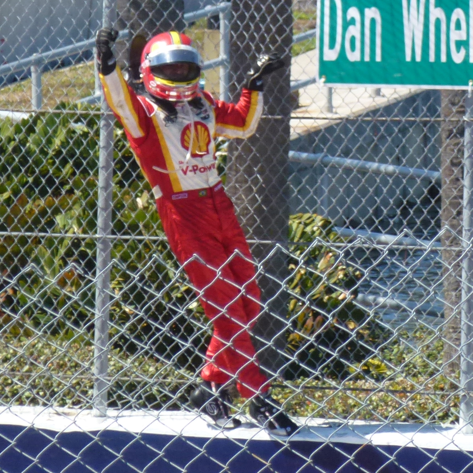 Helio Castroneves stopped at corner 10 on his victory lap after winning the 2012 Honda Grand Prix of St. Petersburg to pay respects to the sign honoring the late Dan Wheldon.